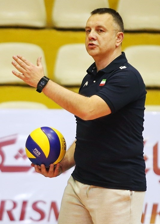 Igor Kolaković